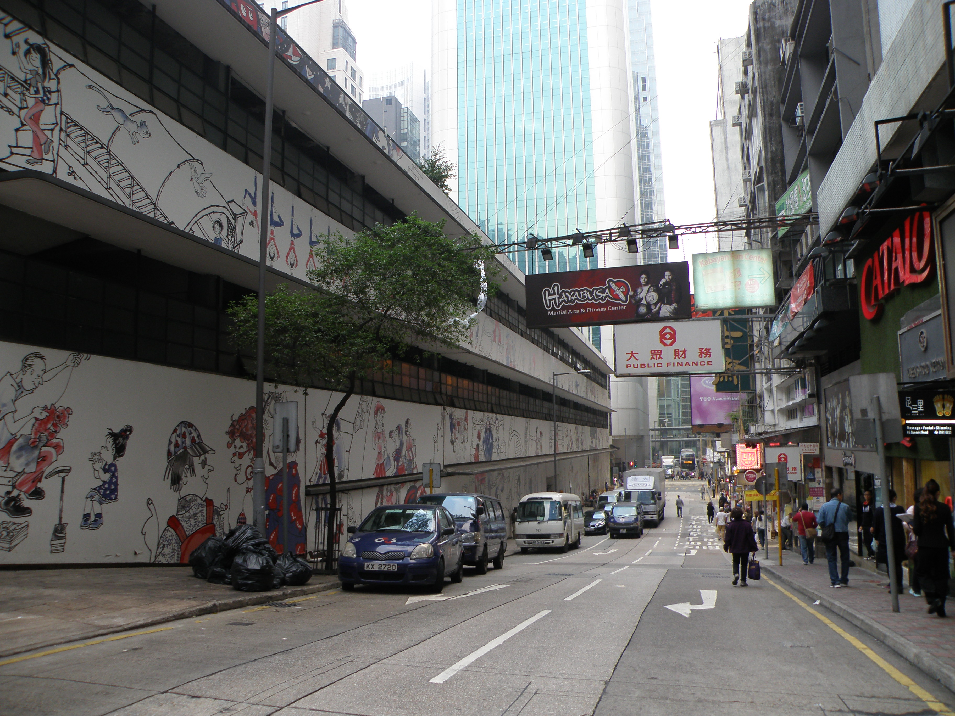 Queen Victoria Street in Central, Hong Kong.